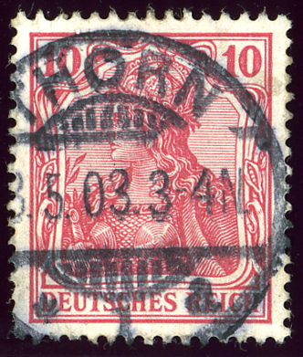 Stamp of Germany, 10 Pfg issue 1902, cancelled THORN (Toruń) in 1903, Westpreussen (now Poland).